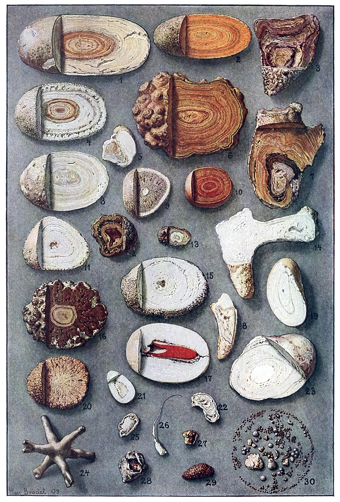 Kidney and Bladder Stones from Authors' Collection and that of Dr. H. H. Young.For notes on their chemical composition, investigated by Dr. G. L. Gordon, of Vancouver, see Vol. II, p. 92.